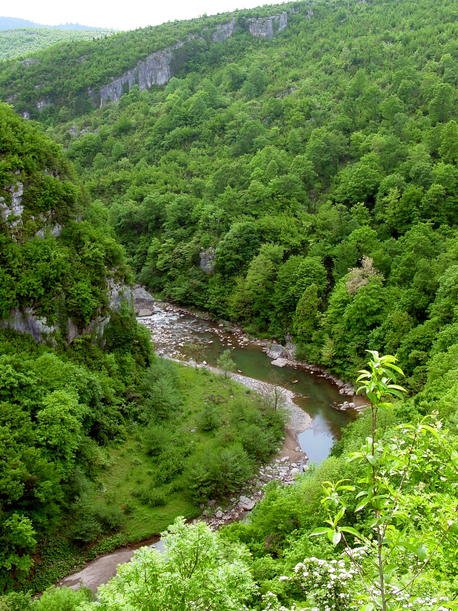 A view from the Motsameta monastery. The name of the river (Tskaltsitela) means "red water" and according to stories David and Konstantine, rulers of the area were killed and dropped into the river by Murvan the Deaf. Water got red because of the blood, hence the name. The rest of the story describes how lions dragged them out of the river and hauled up to the top of the mountain where the monastery is now. Bones of David and Konstantine are still on display and anyone who passes under the sarcofagus three times will get his wish granted.